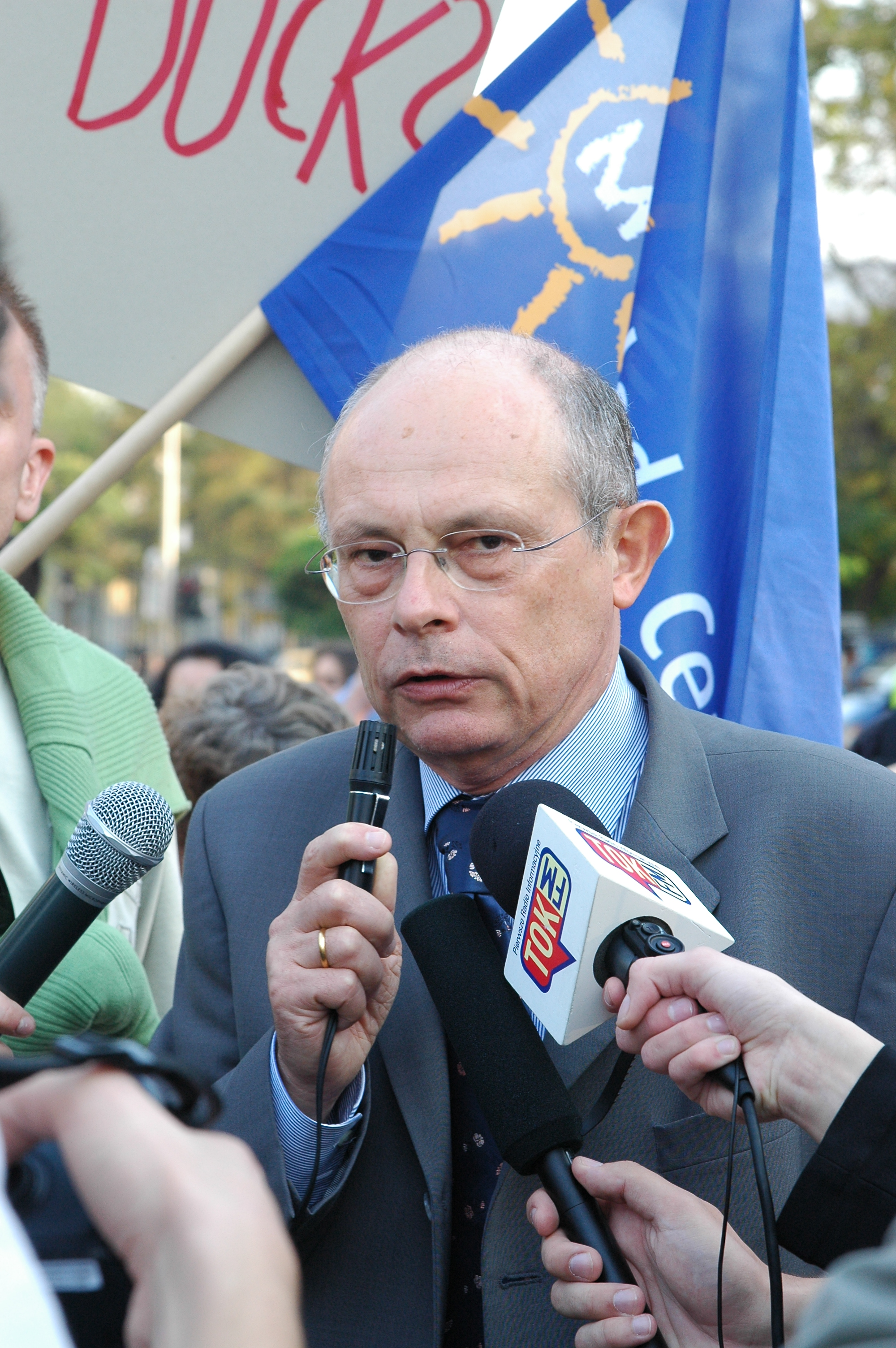 Pics made on a summer day in Warsaw, Poland, during an anti-government demonstration in front of the Polish Sejm